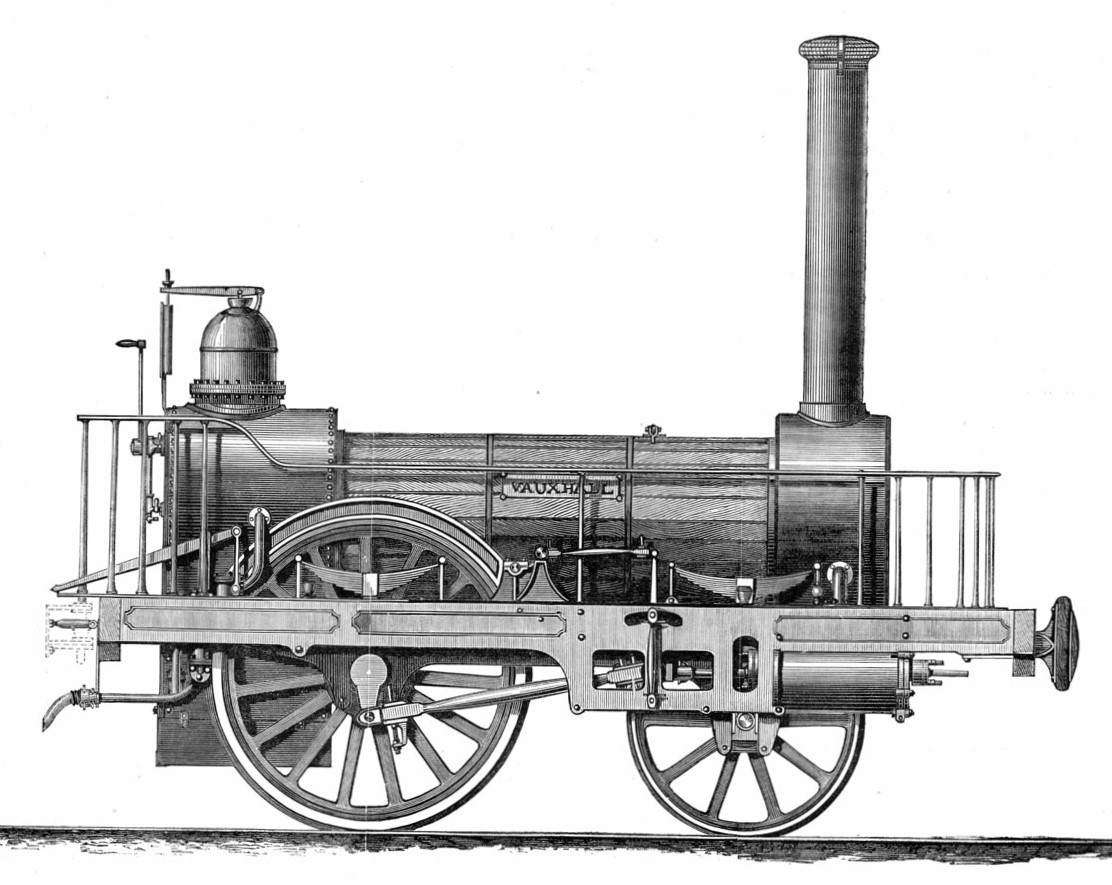 Dublin and Kingstown Railway 1834 locomotives Hibernia and Vauxhall; the first engines to work in Ireland